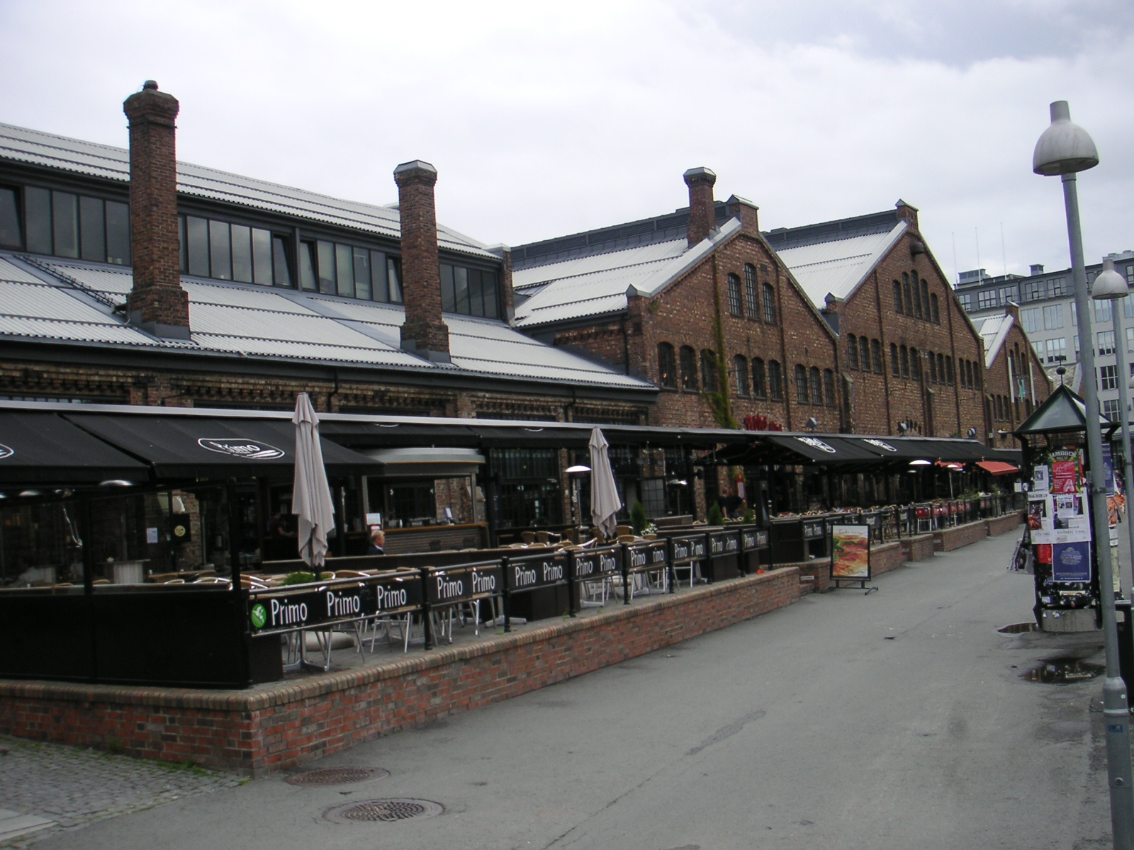 Buildings of the former Shipyard "Trondheim Mekaniske Verksted"